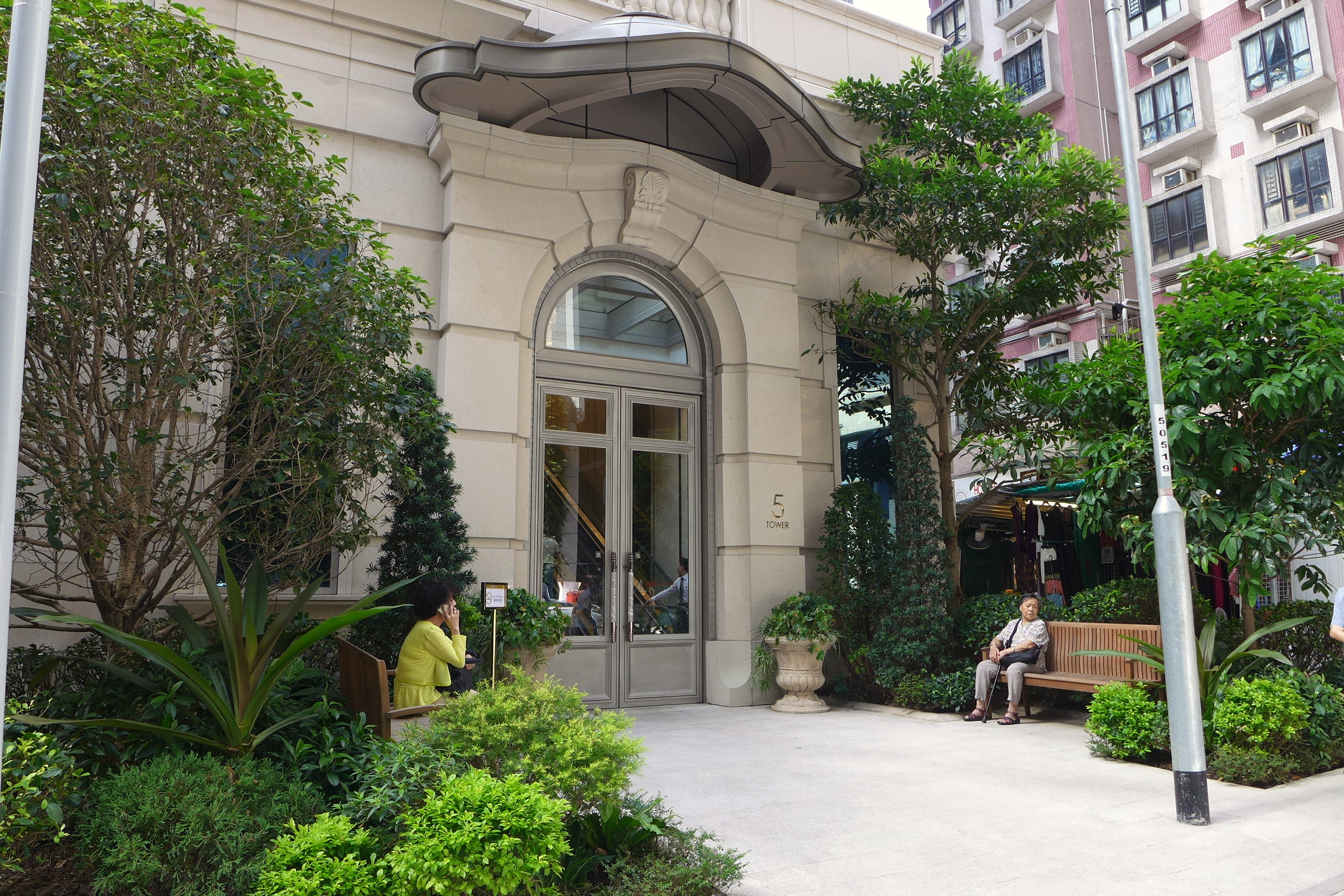 The Avenue Phase 1 Entrance